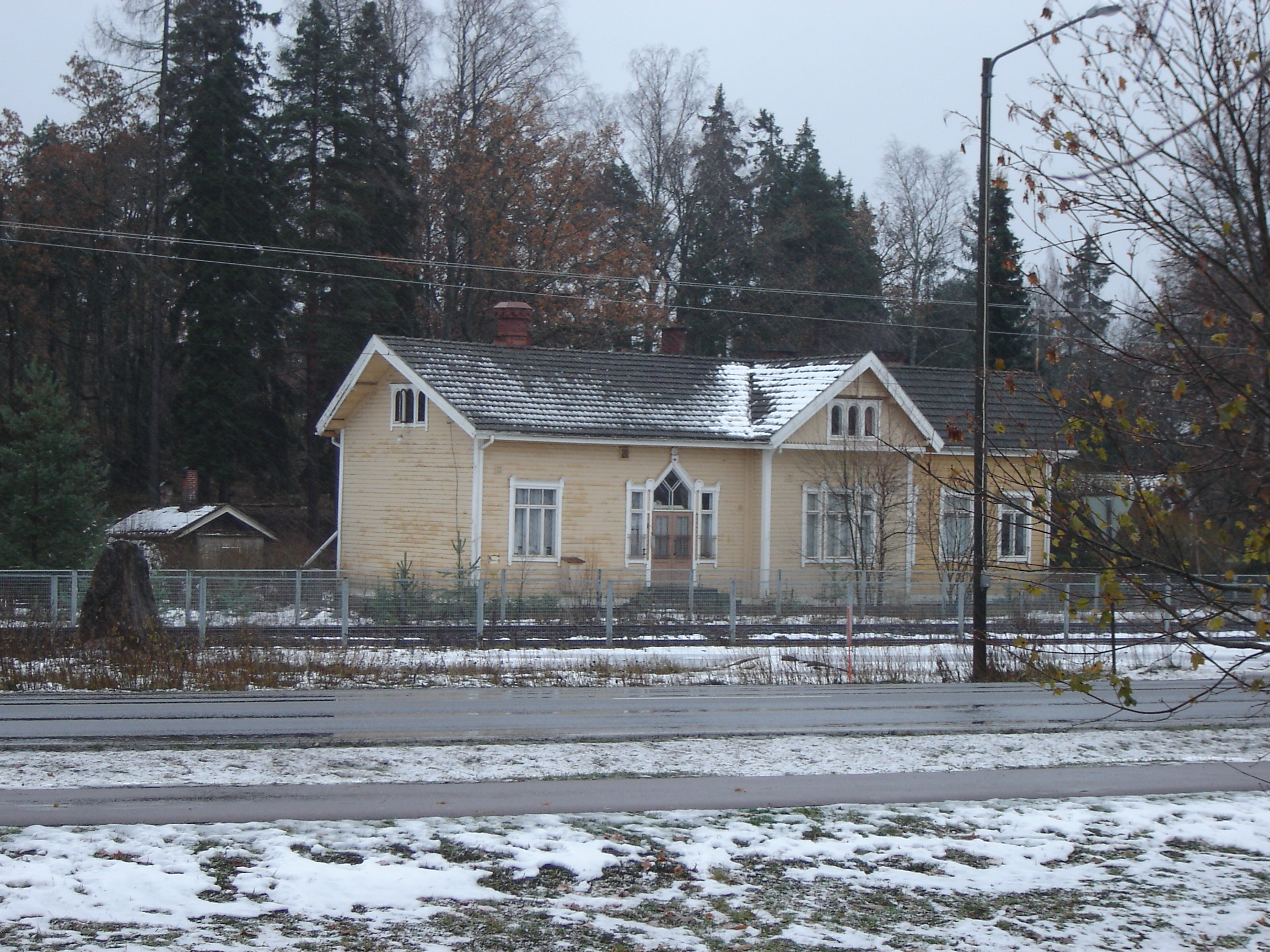 Littoinen railway station in Kaarina, Finland.